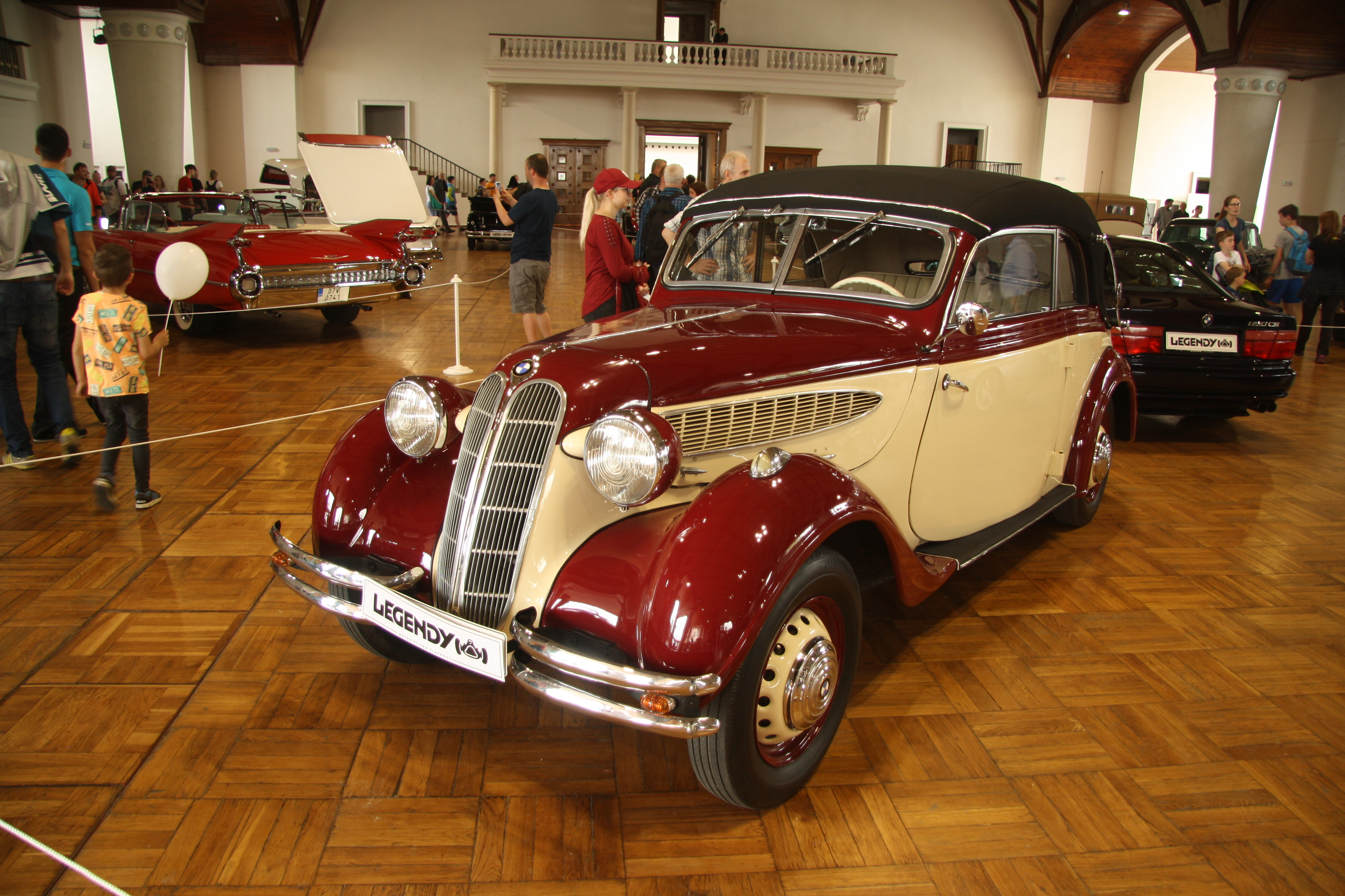 BMW 326 Cabrio 1938 at Legendy 2019 in Prague.